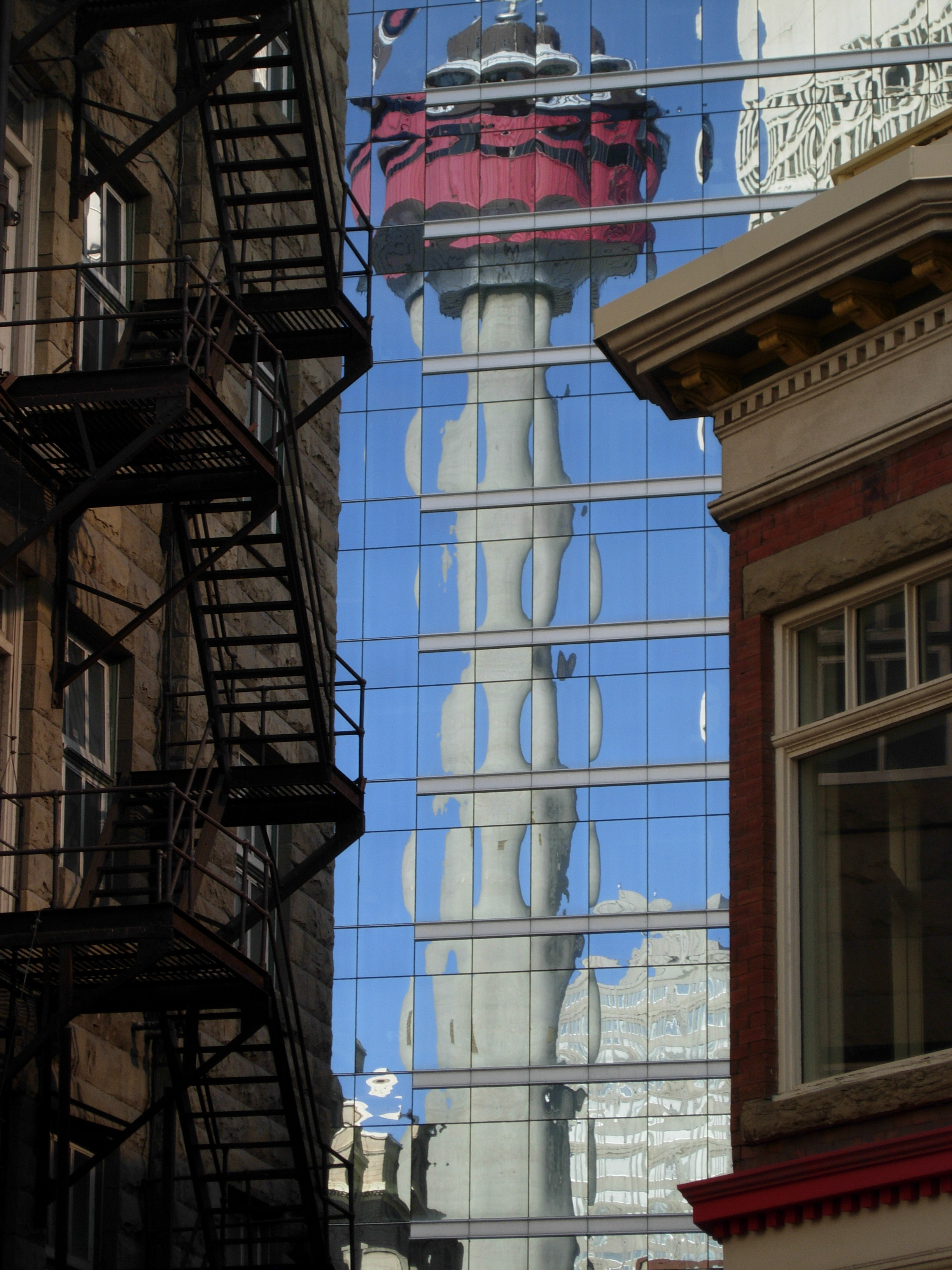 Calgary Tower, reflected in a near-by high rise.